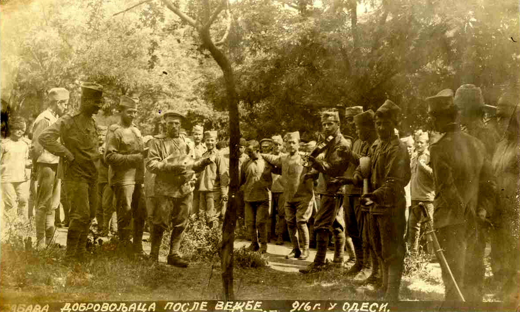 Military of the 1st Serbian Volunteer Division (Odesa - 1916)